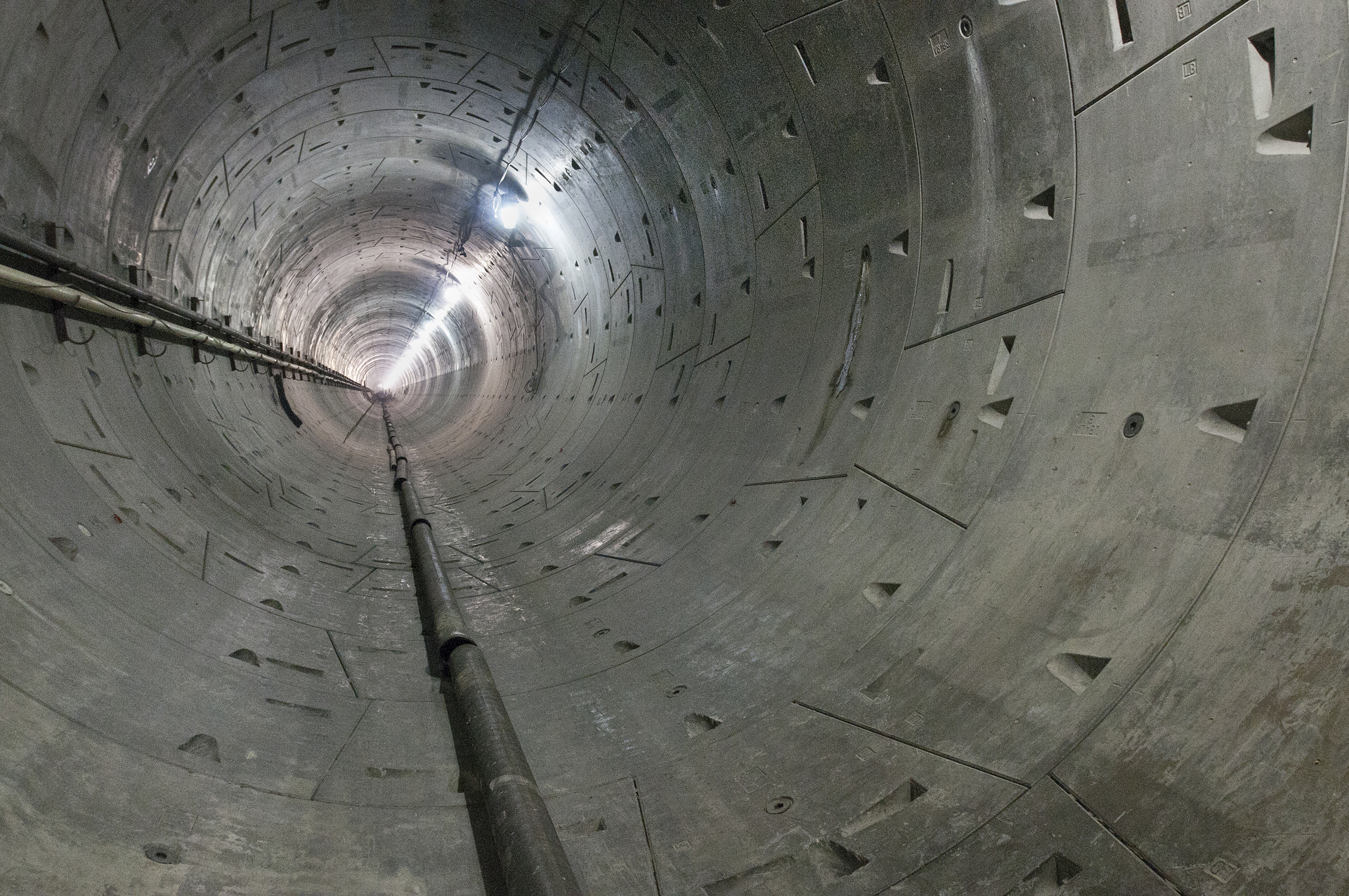 Workers are building the extension of the 7 subway line to 34th Street and Eleventh Avenue. This photo shows the progress as of June 14, 2011: A completed tunnel with its concrete liner in place. Photo by Metropolitan Transportation Authority / Patrick Cashin.